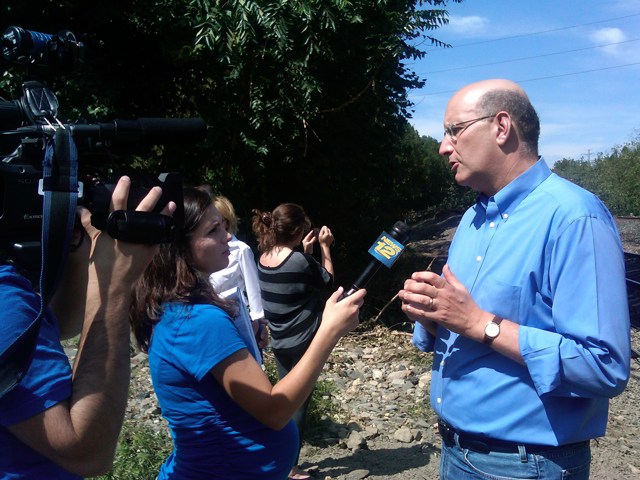 MTA Chairman Jay H. Walder speaks with the media on Aug. 31 about the condition of Metro-North Railroad's tracks on the Port Jervis Line after Hurricane Irene. Photo by Metropolitan Transportation Authority / Hilary Ring.